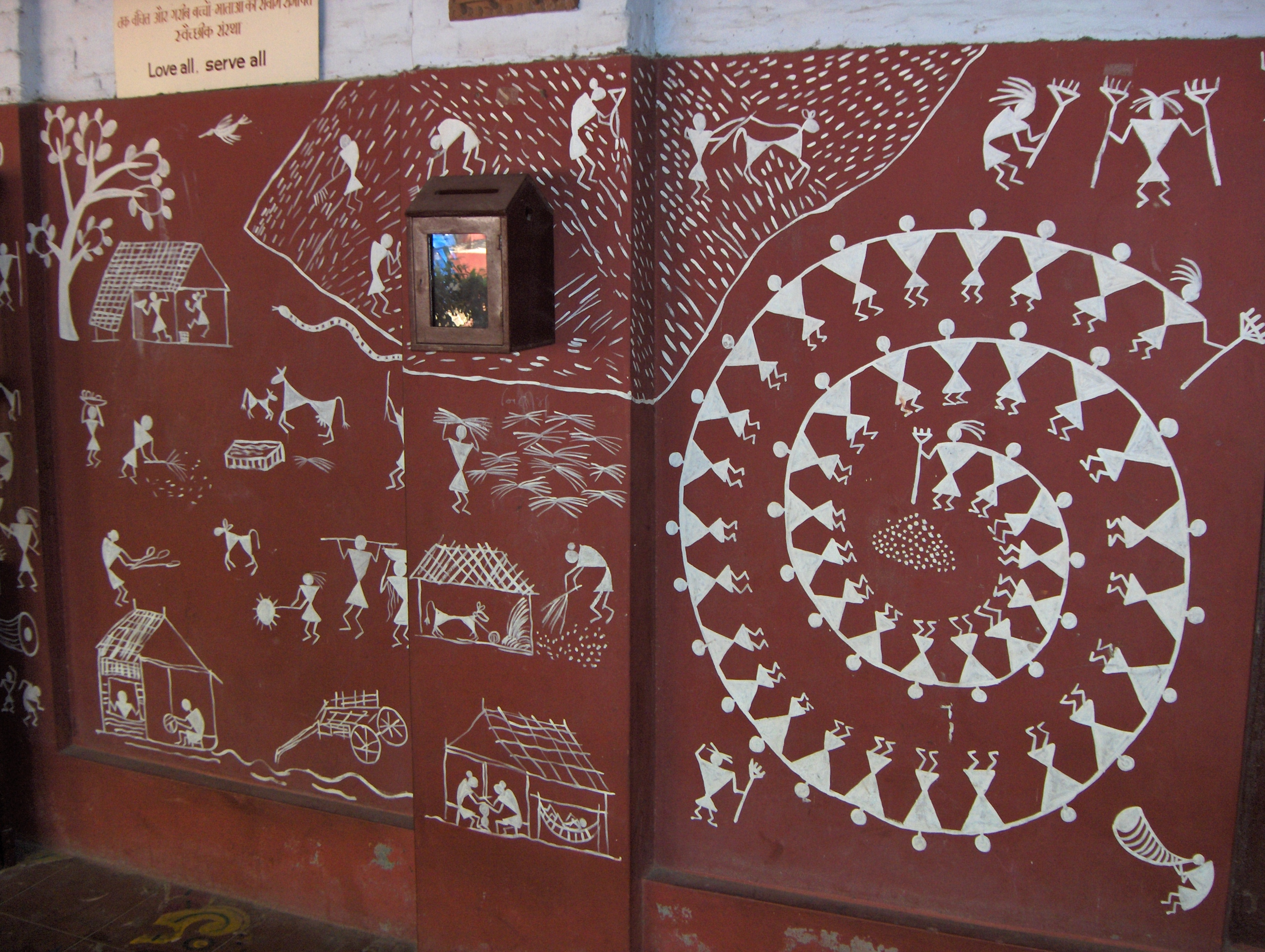 Warli art at the Sabarmati Ashram in Ahmedabad, India Picture taken by me, Nichalp on 28-Jan-2006